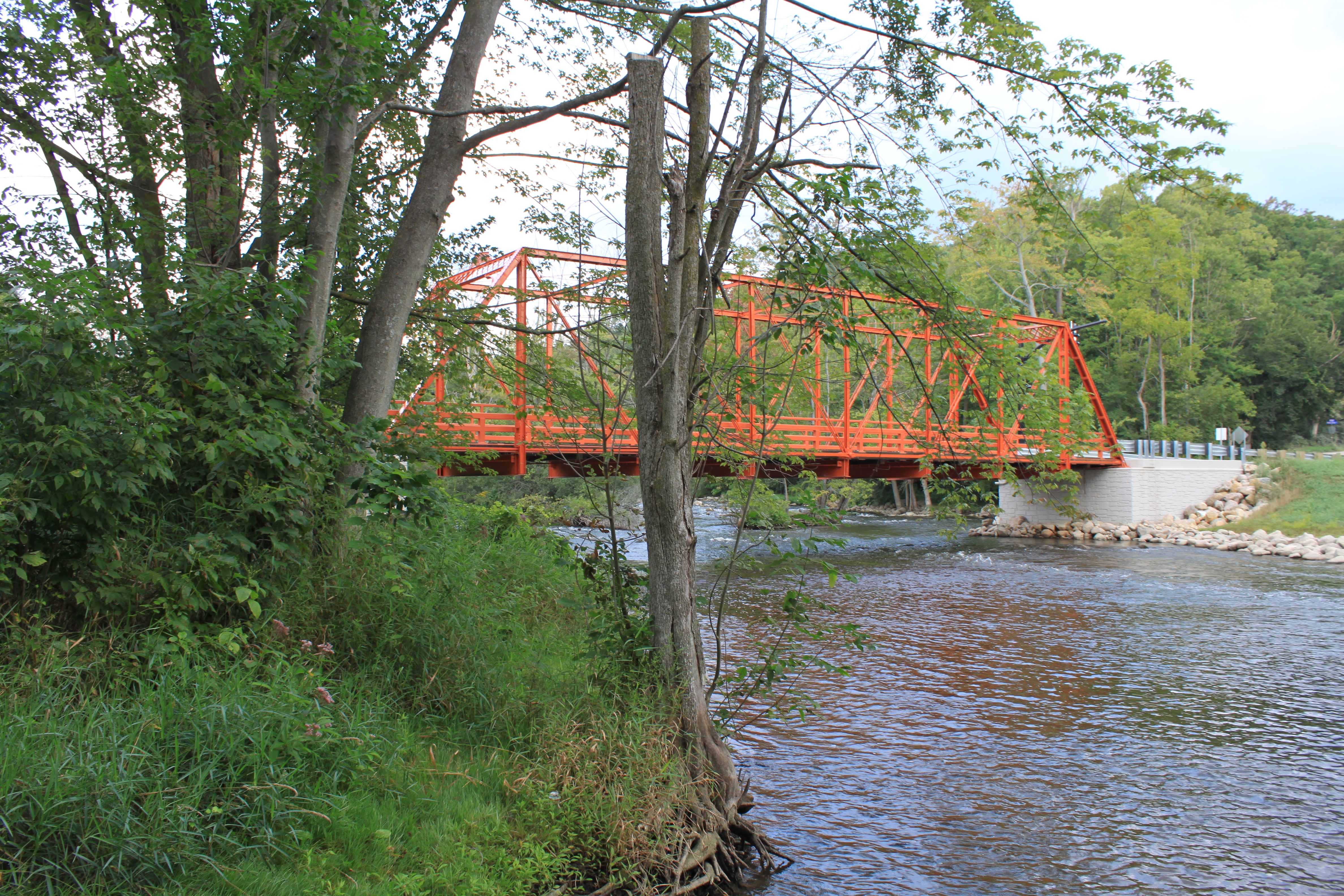 Delhi Metropark, Scio Township, Michigan, view of Delhi Bridge, built by the Wrought Iron Bridge Company and moved to this location after a tornado in 1918 destroyed a previous bridge; the bridge was rehabilitated in 2008.